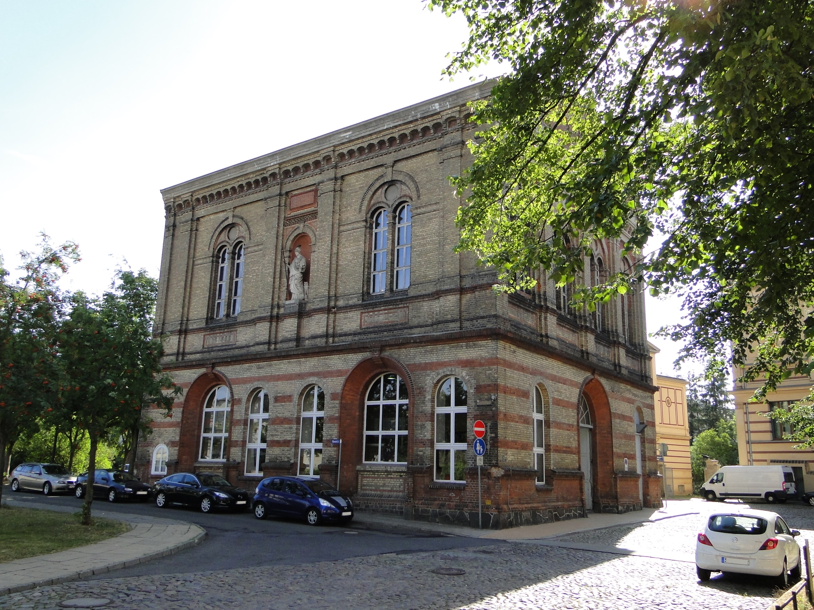 Backdrop house of the Mecklenburgisches Staatstheater in Schwerin, Mecklenburg-Vorpommern, Germany